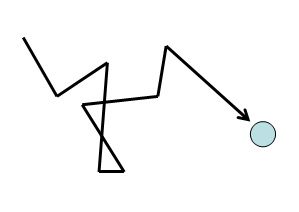 Figure to explain the traveling particle & mean free path